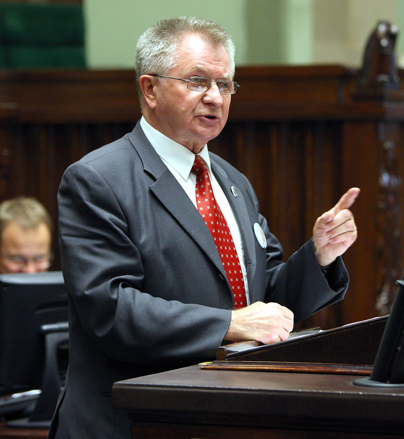 Longin Pastusiak. 20th anniversary of re-establishment of the Polish Senate